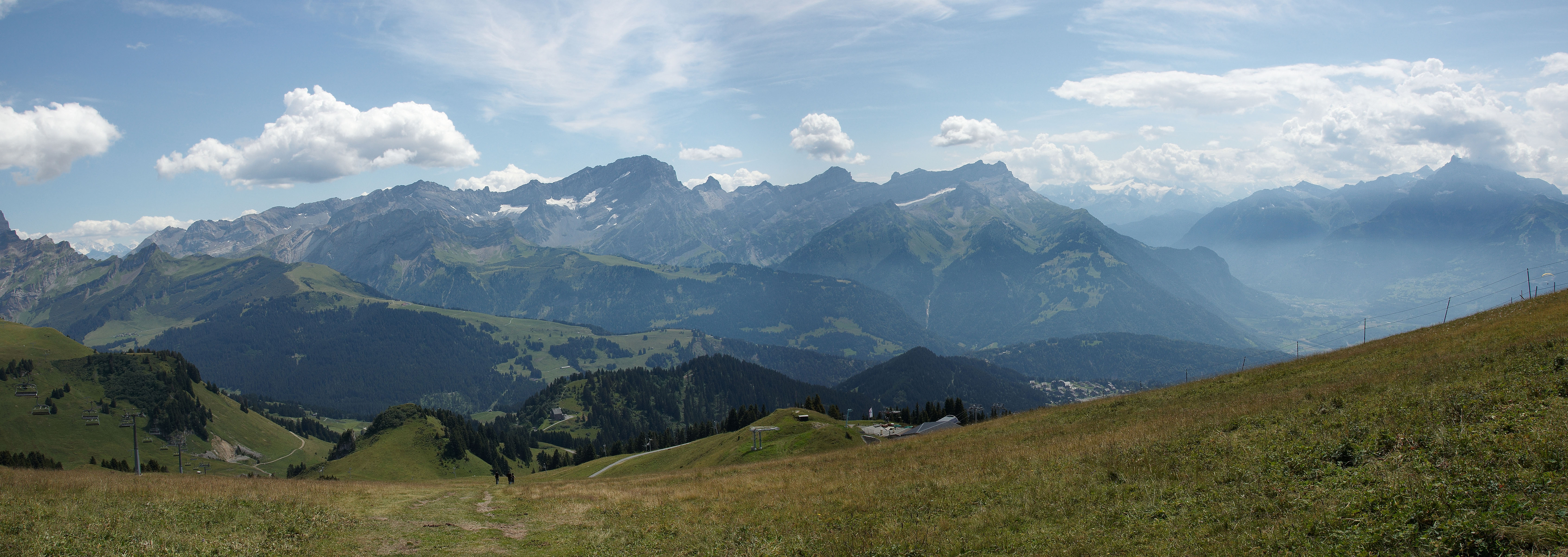 Mountains seen from Villars-sur-Ollon, Switzerland